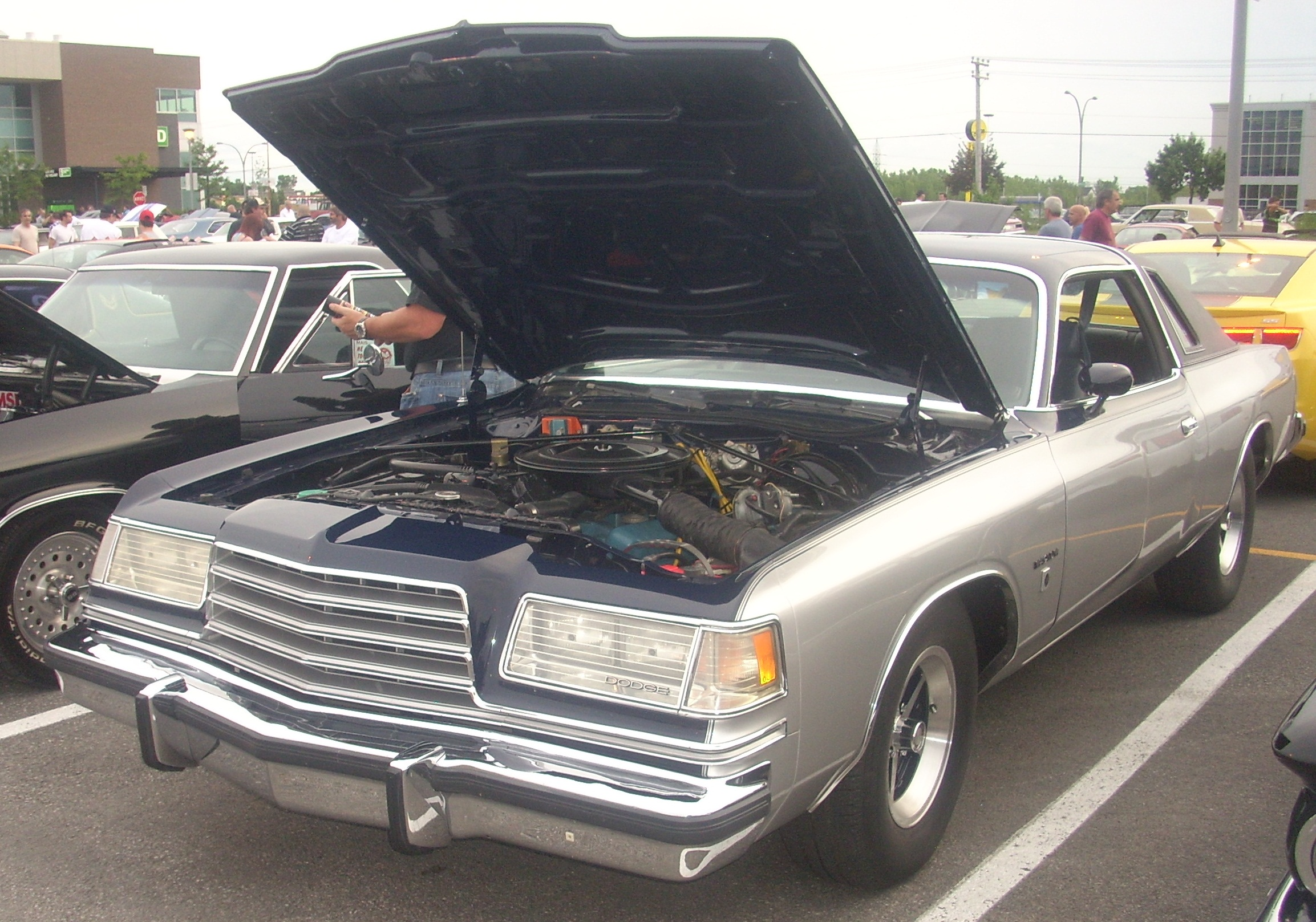 1979 Dodge Magnum photographed in Laval, Quebec, Canada at Centropolis Laval.